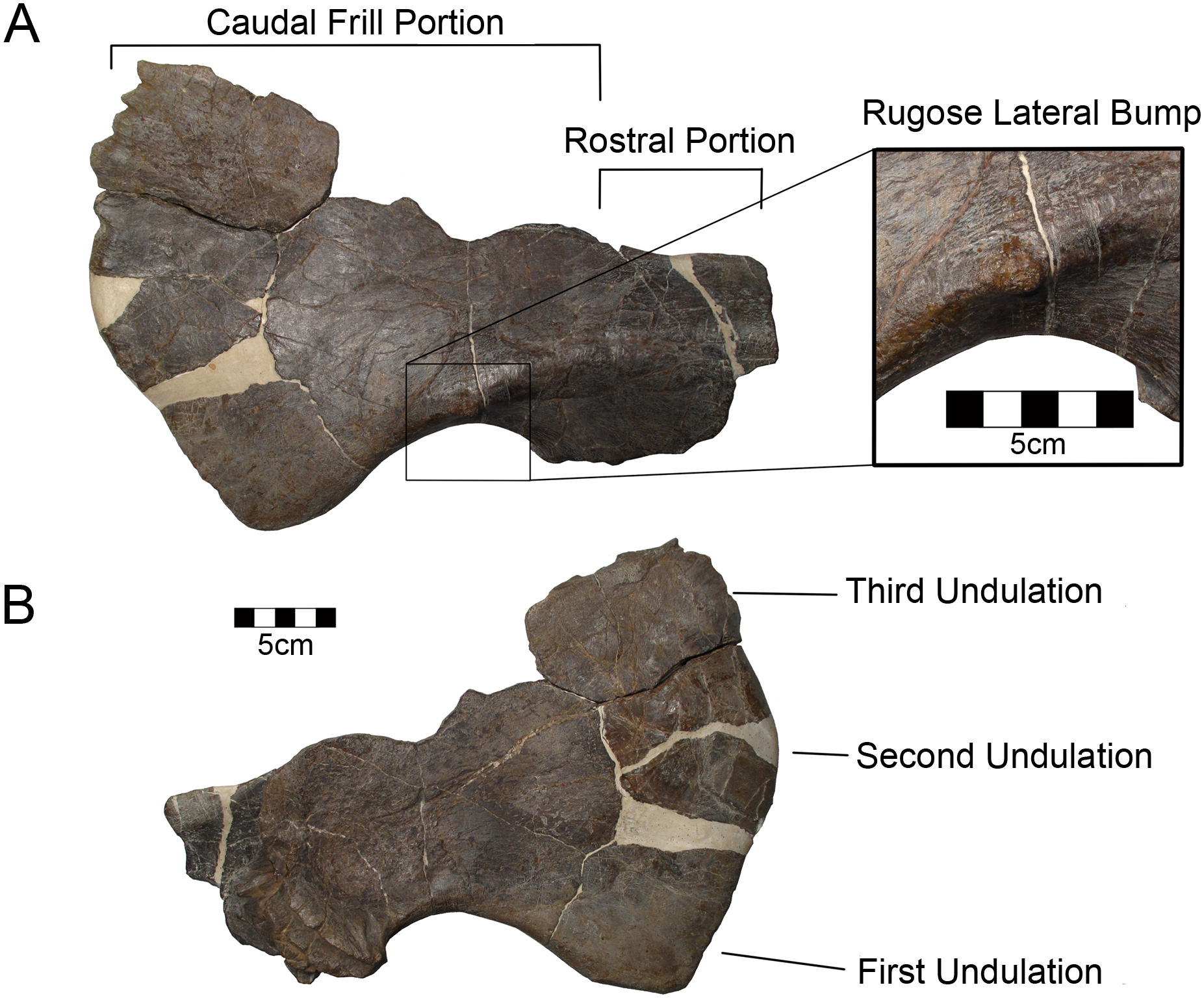 Fig 3. CPC 274 Squamosal - The right squamosal of CPC 274 in (A) lateral and (B) medial views. Scale = 5 cm. Inset showing the rugose lateral bump. Scale = 5 cm.